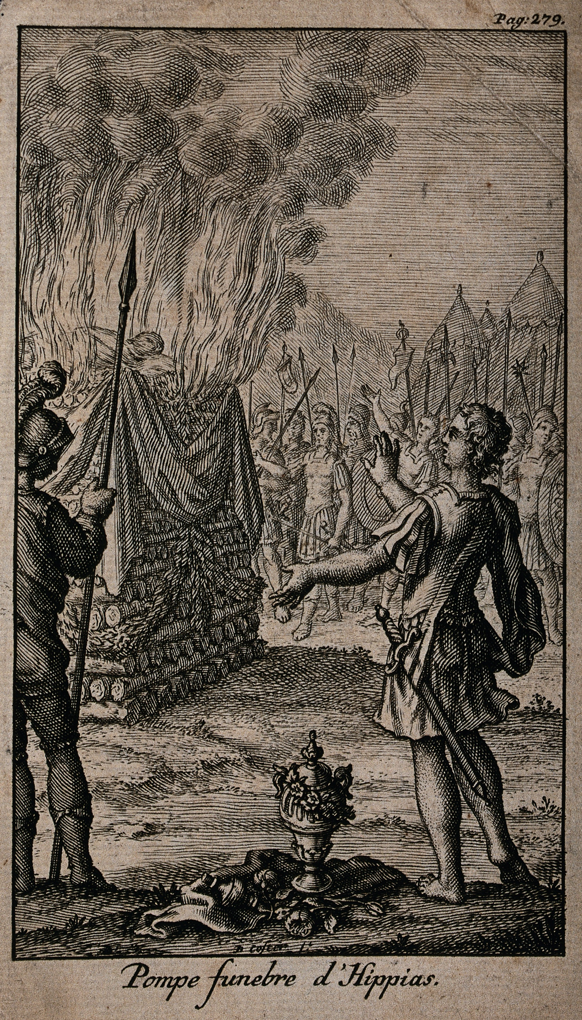 The cremation of Hippias. Etching with engraving. Iconographic Collections